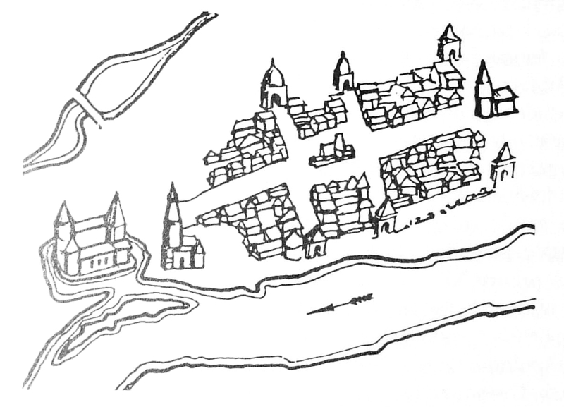 Castle and town Lyubcha, 17th c. view